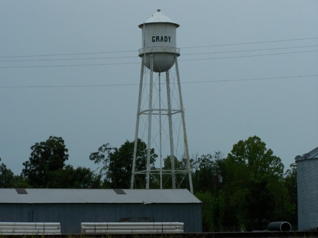 Grady water tower - Photo taken from US 65